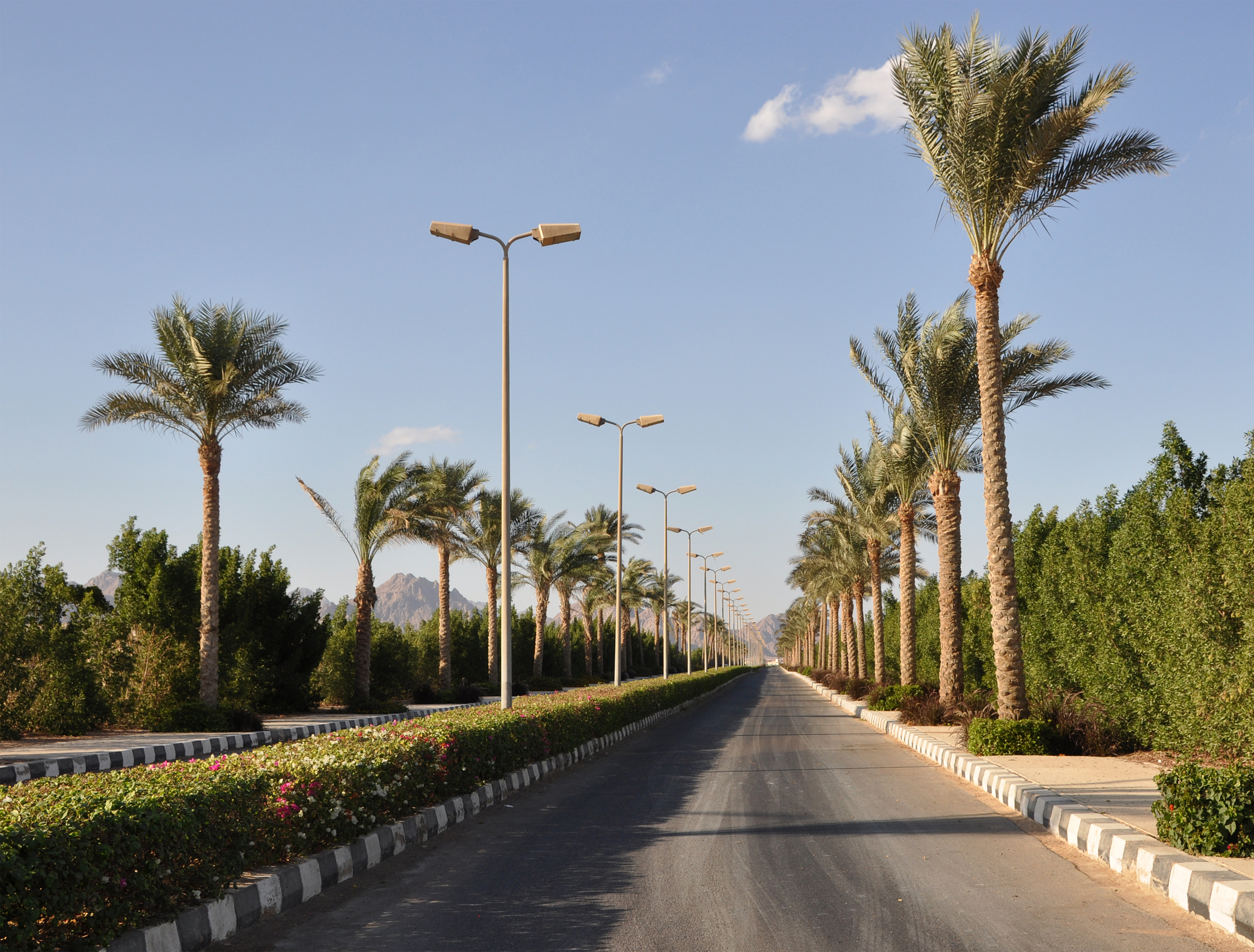 Sharm el-Sheikh (Egypt): road from White Knight Bay to the airport